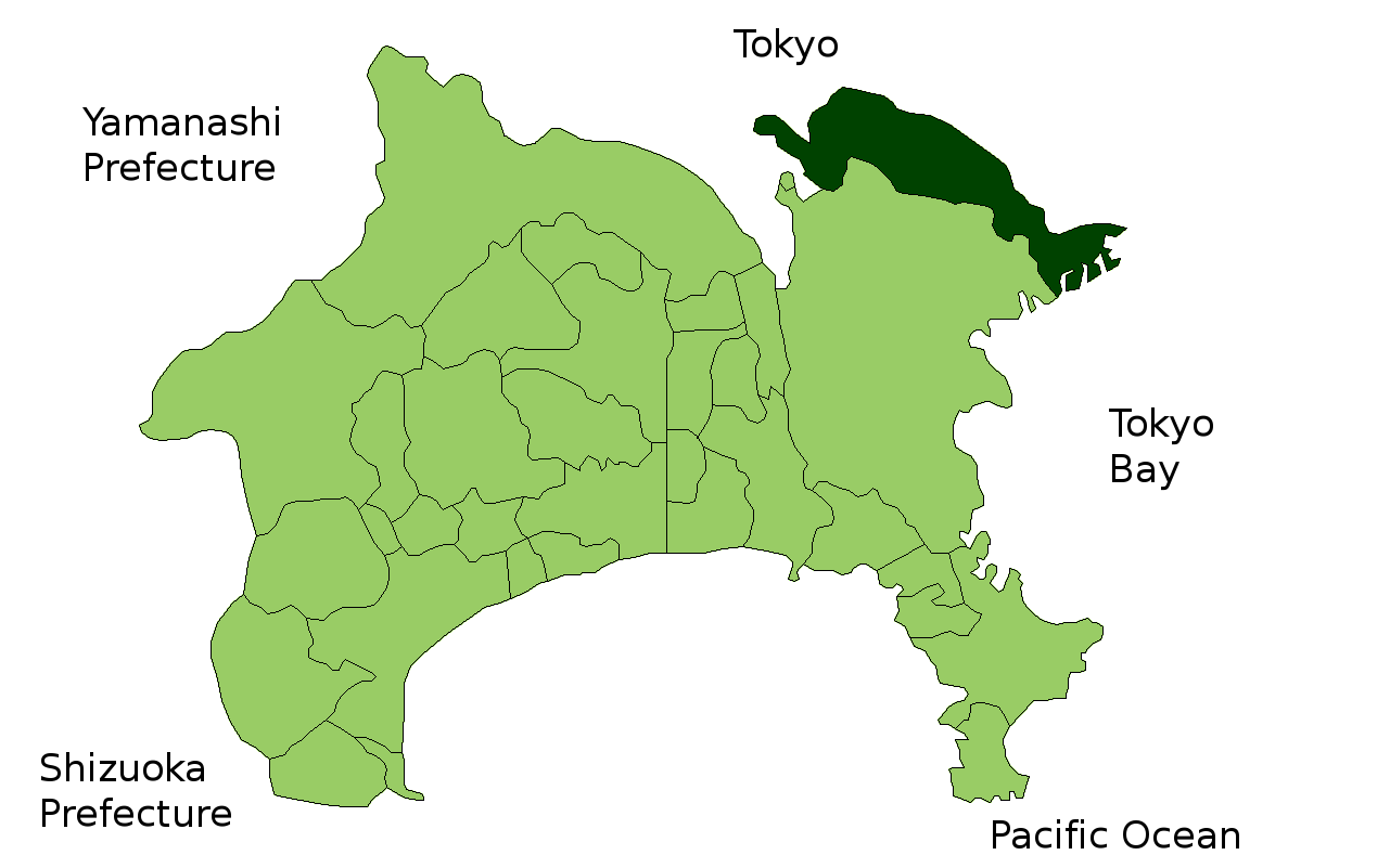 Location Map of Kawasaki in Kanagawa Prefecture, Japan